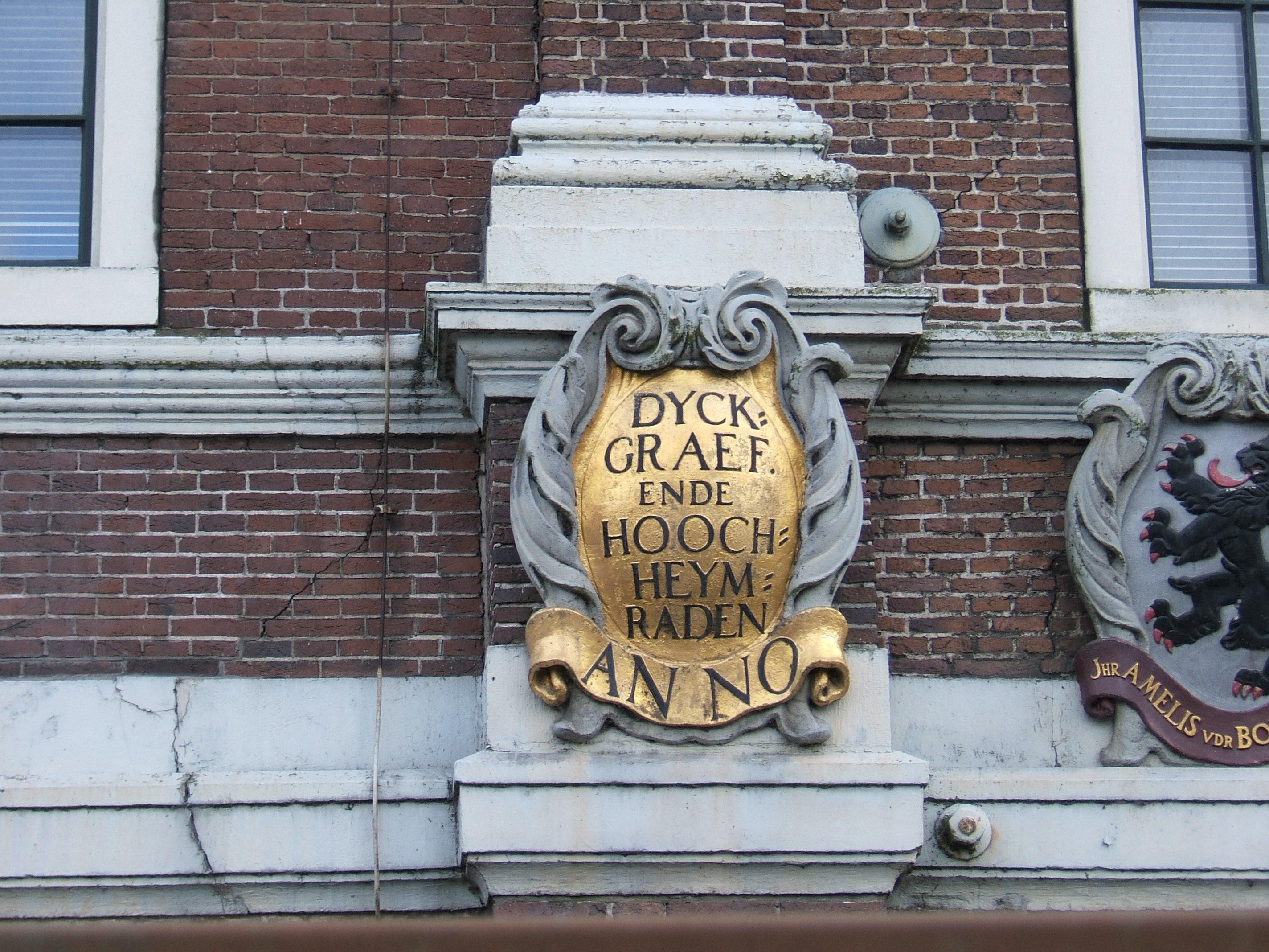 Sugar city in Halfweg; old sugar factory now renovated. Office and housing space.